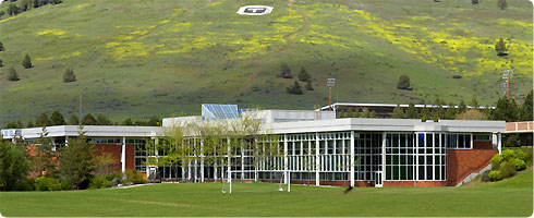 Oregon Institute of Technology (Oregon Tech) campus in Klamath Falls, Oregon. Purvine Hall